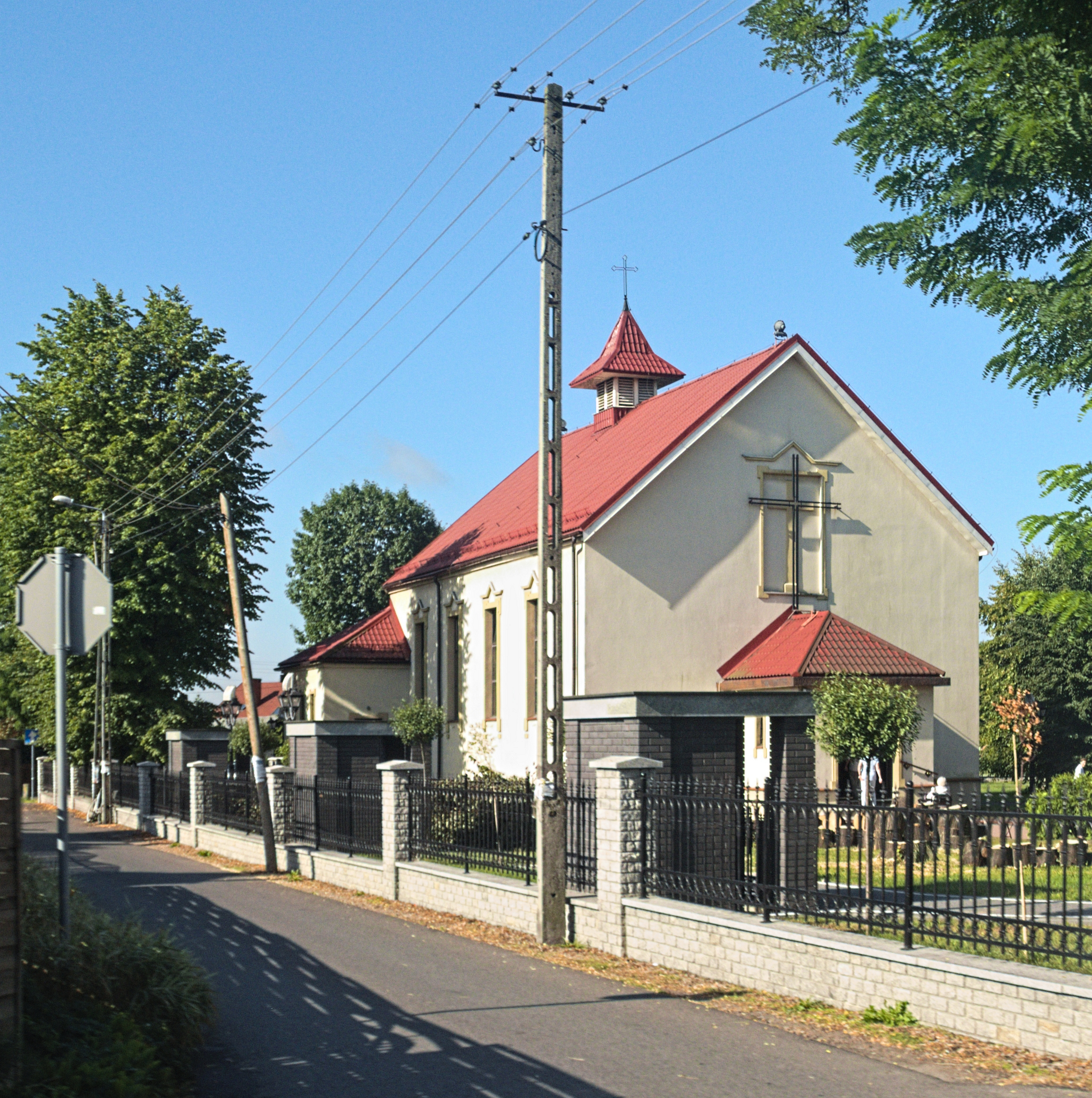 Saint Mary of the Angels church in Jaworzno-Dąbrowa Narodowa, Emilii Plater Street, view from bus